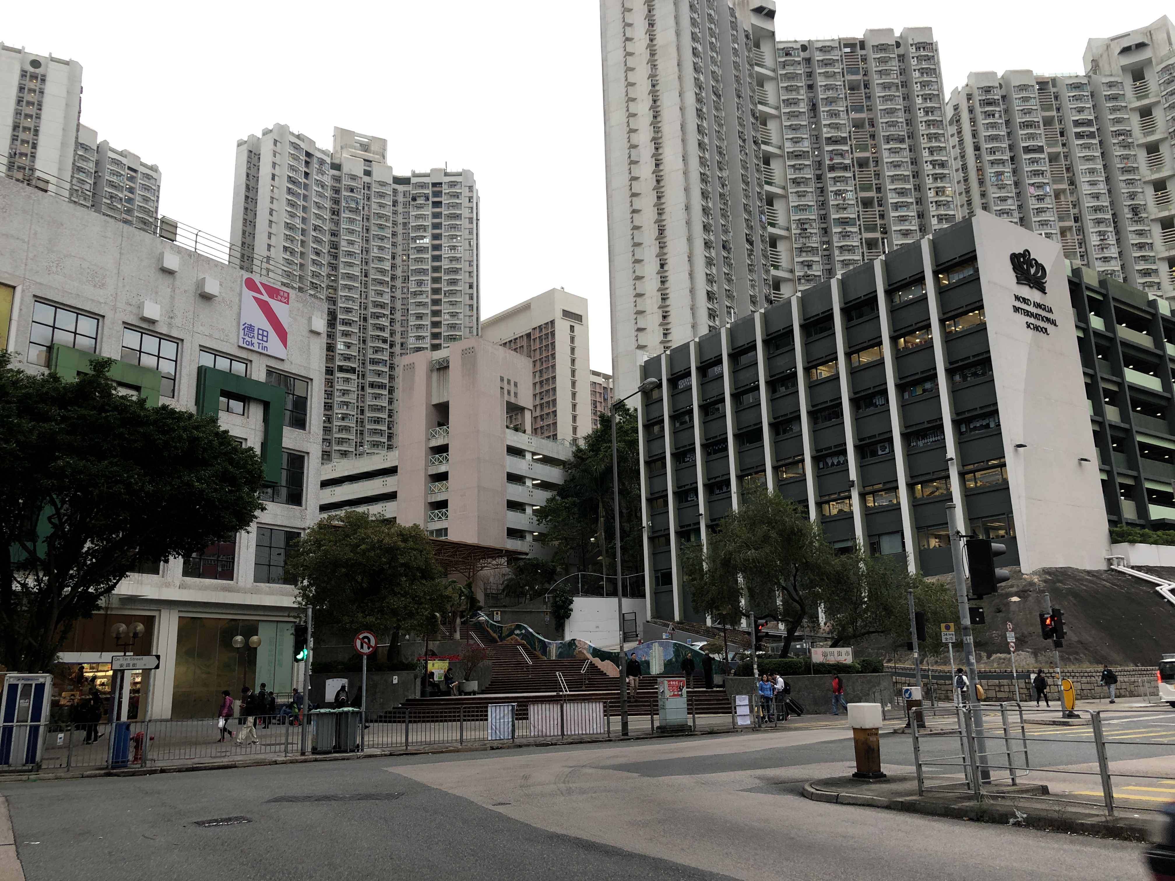 The updated version of File:Tak Tin Estate.jpg